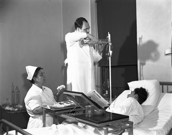 New Orleans, 1942. Doctor at Marine Hospital pours fluid into an IV for a patient in bed as a nurse observes. Original caption for photo set: "The massive drip treatment for syphilis, the object of lengthy research by doctors of the U.S. Public Health Service, may be the answer to America's venereal disease control problem. These photographs show various operations in the treatment. Doctors of the Marine Hospital are assisted by technicians and nurses employed by the WPA. Interior."